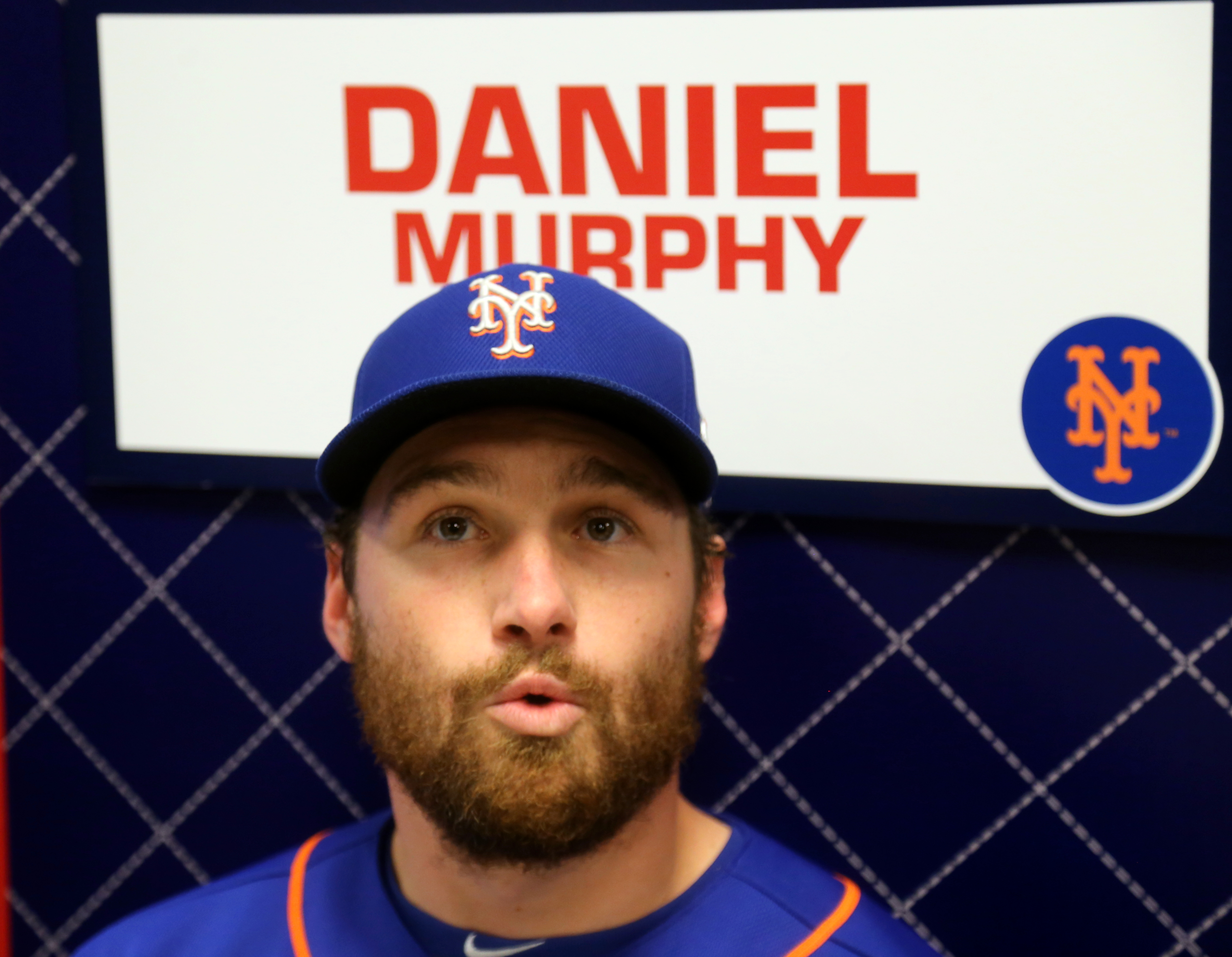 Daniel Murphy talks to reporters on #WSMediaDay.